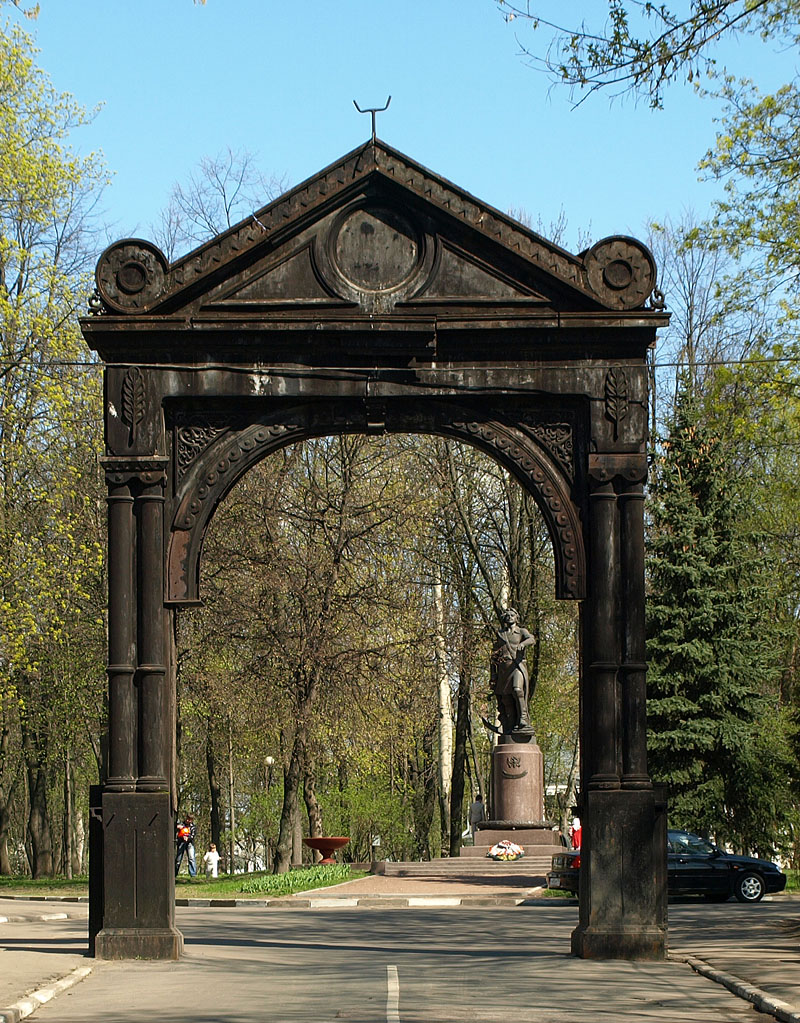 Tsar's Court in Izmailovo